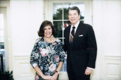 President Ronald Reagan and Carol McCain (3-12) Farewell Photo Op. With Carol McCain President Ronald Reagan (13-16) Photo Op. With White House Garage carpet drivers